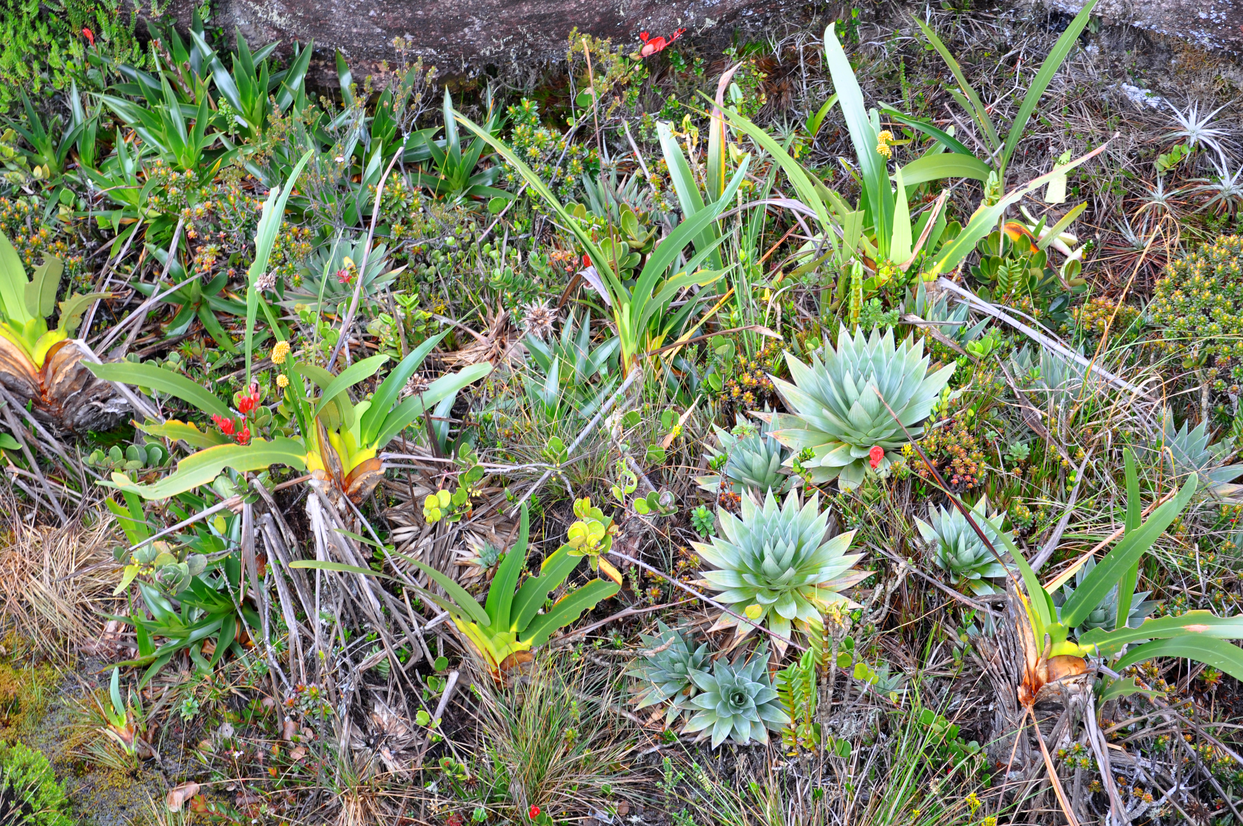 Example of tepuy vegetation, from Mount Roraima in Venezuela.